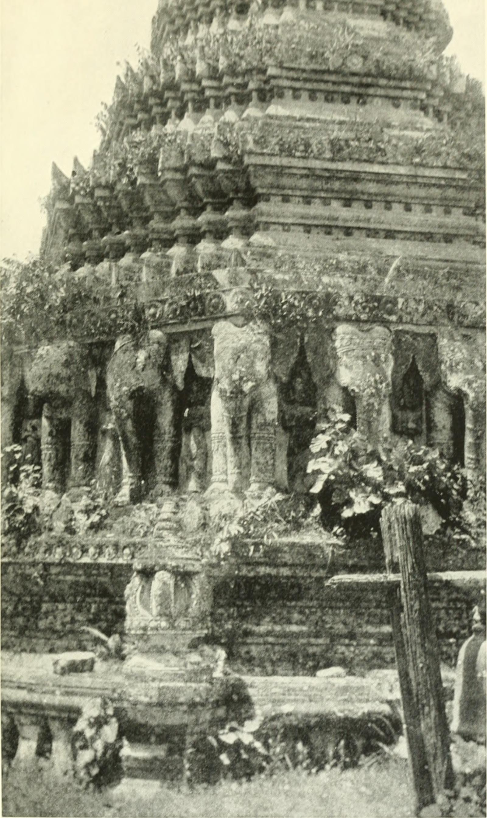 Title: The Mythology of all races .. Year: 1918 (1910s) Authors: Gray, Louis Herbert, 1875- ed Moore, George Foot, 1851-1931, joint ed MacCulloch, J. A. (John Arnott), 1868-1950. joint ed Subjects: Mythology Publisher: Boston, Marshall Jones company Text Appearing Before Image: for the worshipof the Chinese general, Cao-bien, who was first Governor, andafterward King, of Annam, and who was so beloved of thepeople that they raised him to the dignity of one of the pro-tector spirits of the country. Later the Chinese became verynumerous in this quarter of the capital and took possession ofthe temple. Some repairs having to be made to the buildingand to the image, they seized this opportunity to substitutethe worship of Ma-vlen, or Phuc-ba, for that of Cao-bien.This Ma-vien was the very general who Invaded Tongking, i-ifCXi C/fT) PLATE XI1 A AND B The White Elephant A. This shows an elephant-supported pagoda inLaihka, a Shan capital which suffered terribly inthe civil war that marked the reign of King Thibaw.A vtry similar pagoda stands in Muong Nan, one ofthe Lao Shan States. B. A pagoda on the back of a kneeling elephant.The stucco has flaked off the hind quarters, but nopagoda is repaired imless it stands for the benefit ofthe country, the state, or the town. Text Appearing After Image: '